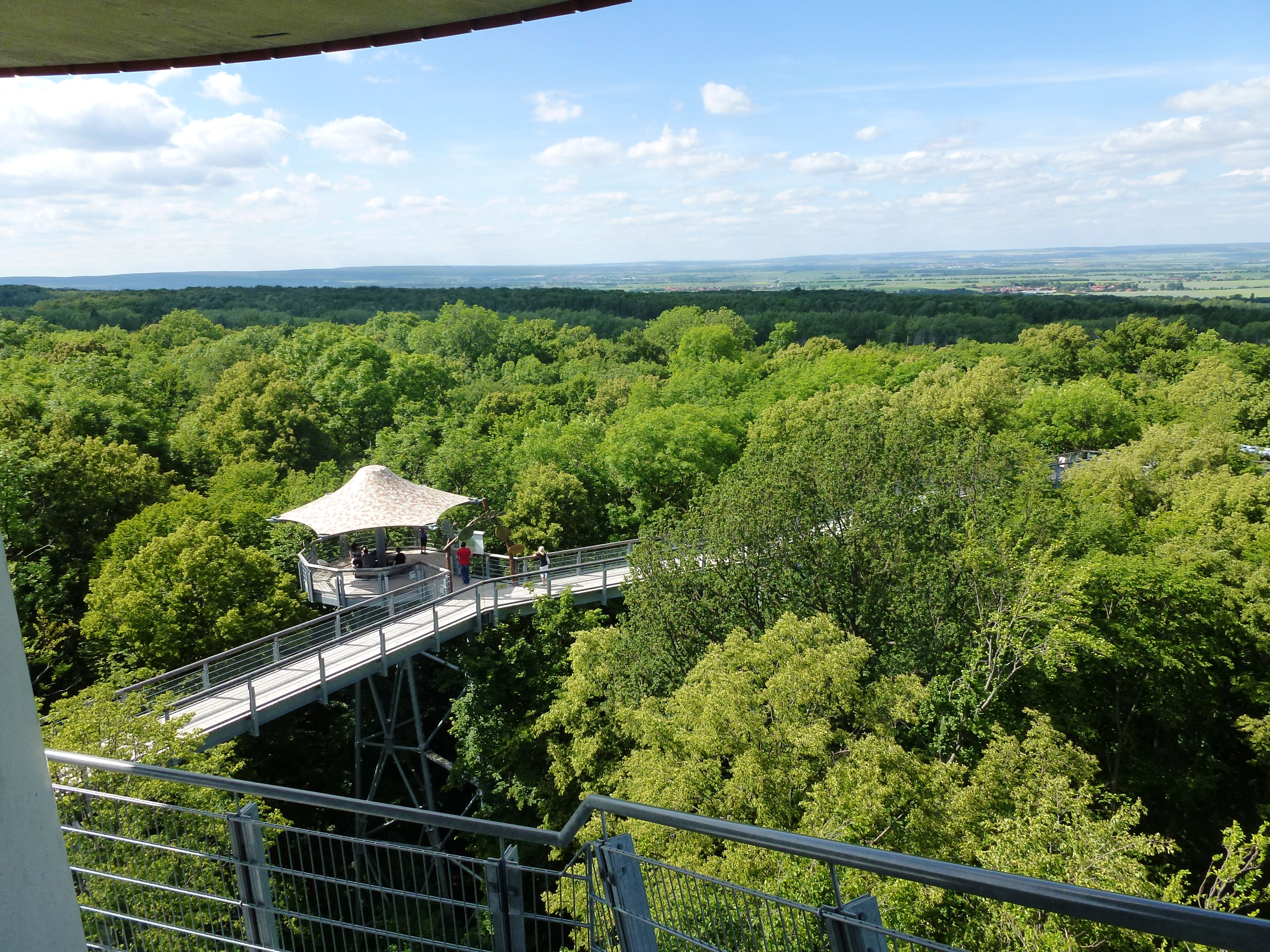 TreeTopWalk in Hainich, Germany